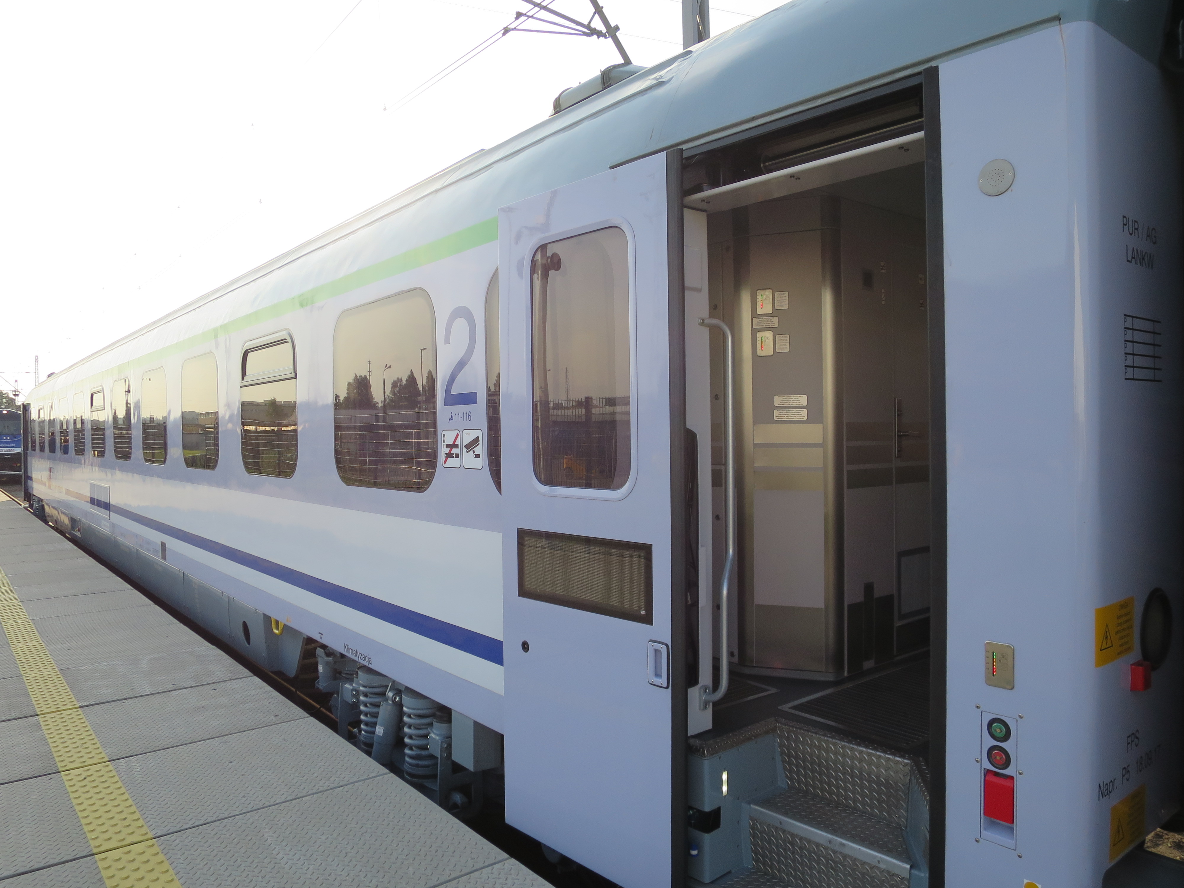 The making of this document was supported by Wikimedia Polska Association, within Wikigrant no. WG 2017-44. 144A